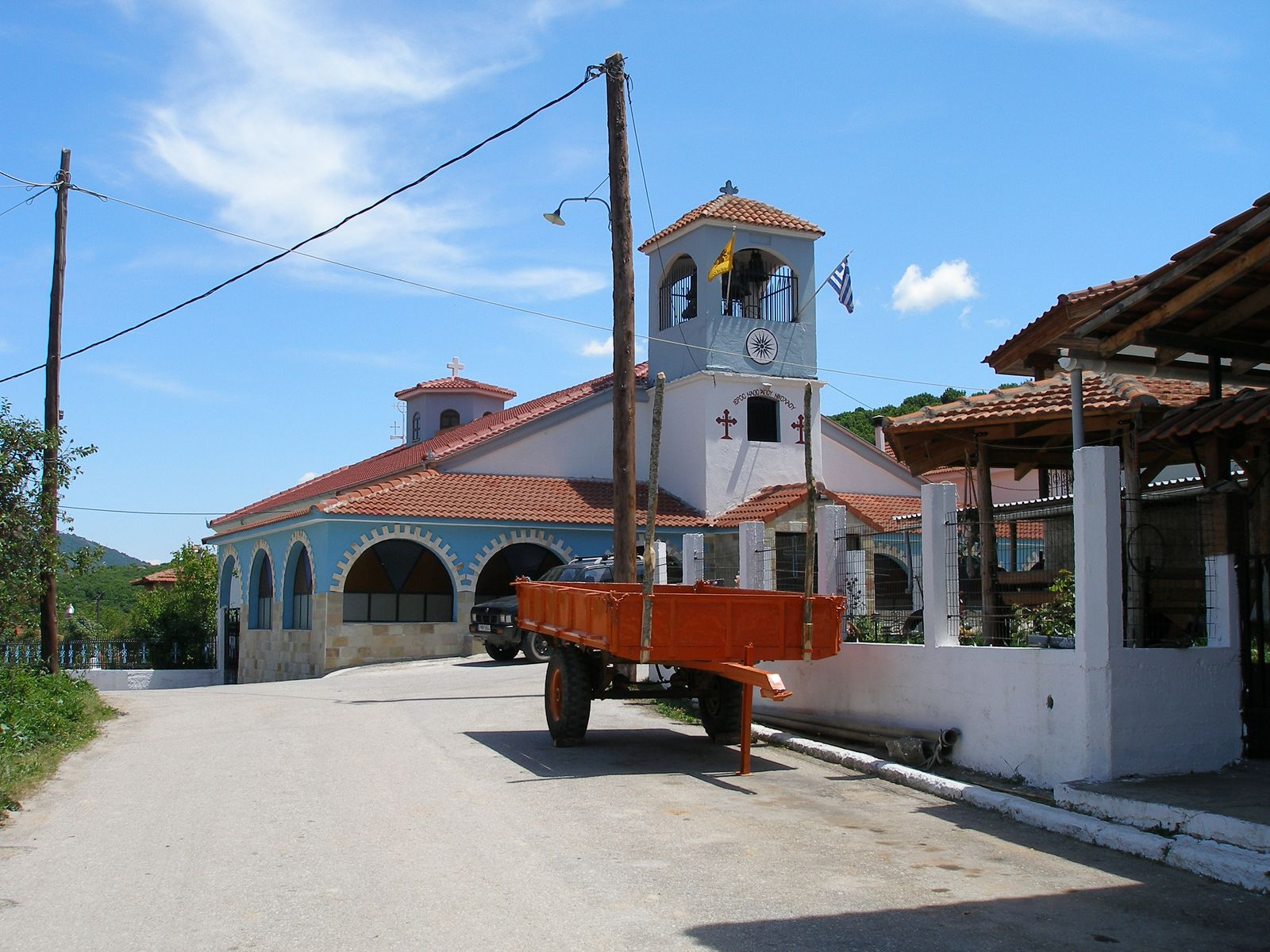 Church St.Nikolaos in Vathytopos/T'rlis, Eastern Macedonia, Greece